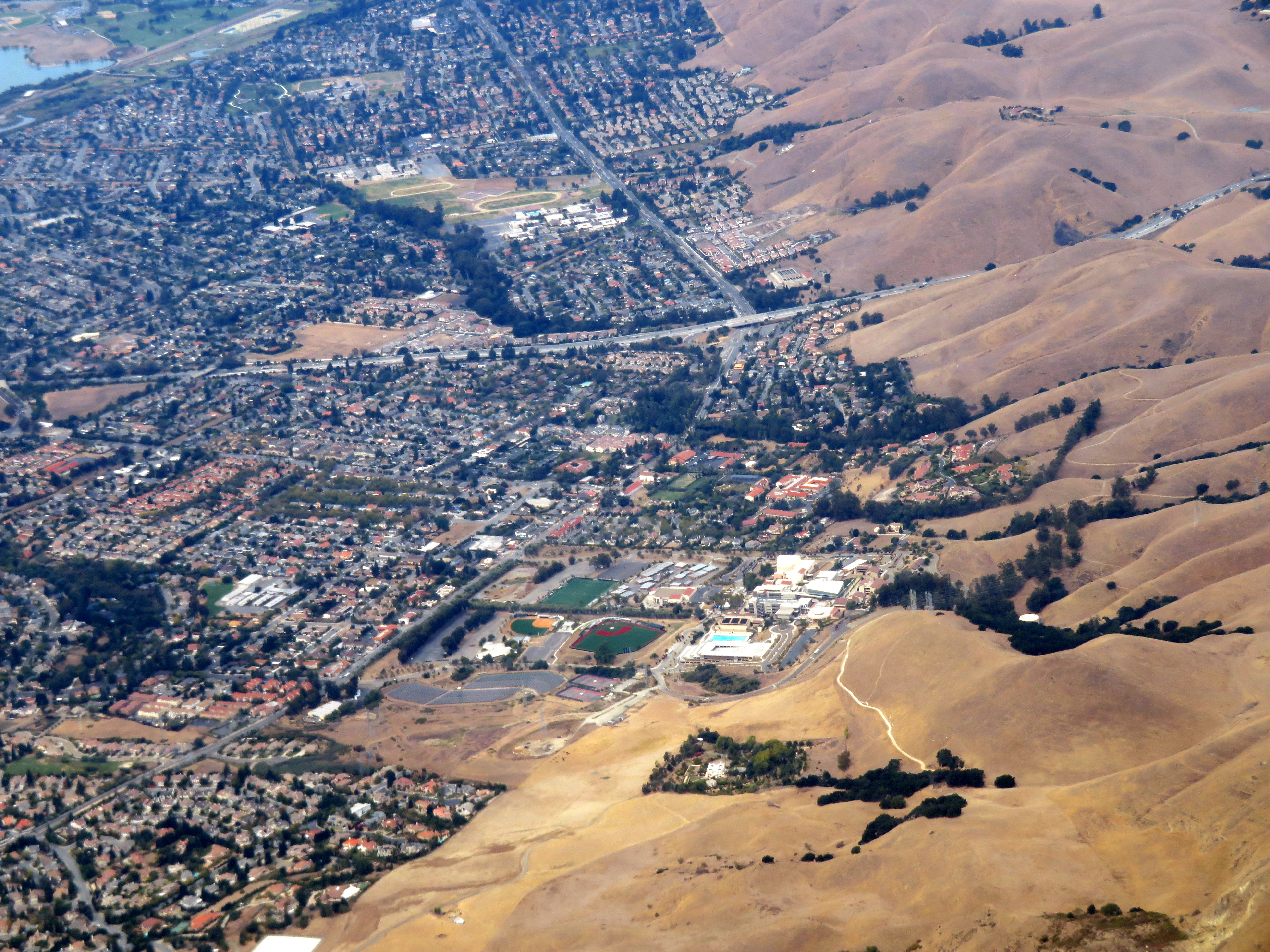 Aerial view of Ohlone College in September 2019